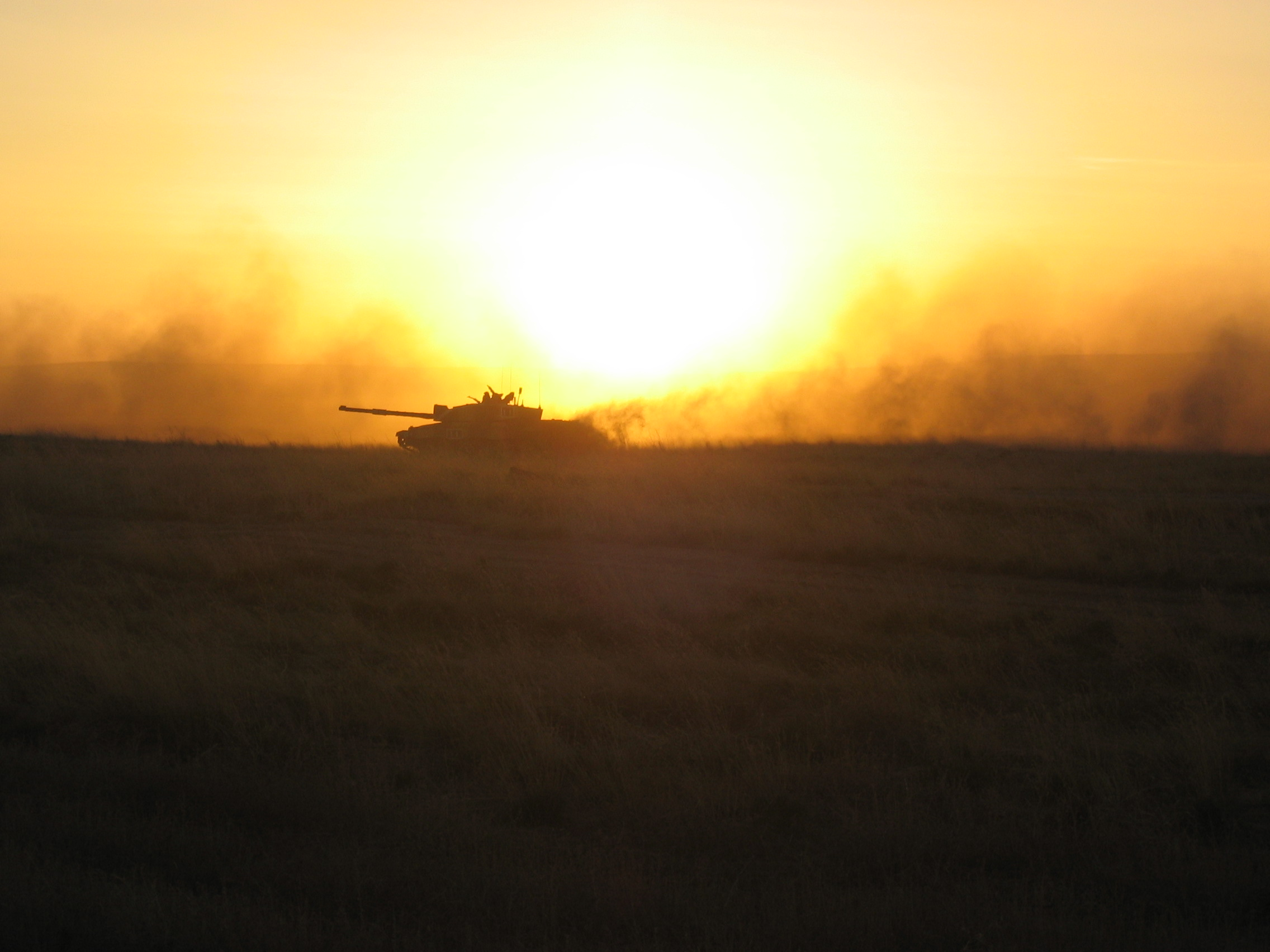 A Challenger 2 of D Sqn Royal Dragoon Guards on Exercise in The British Army Training Unit Suffield BATUS in 2004